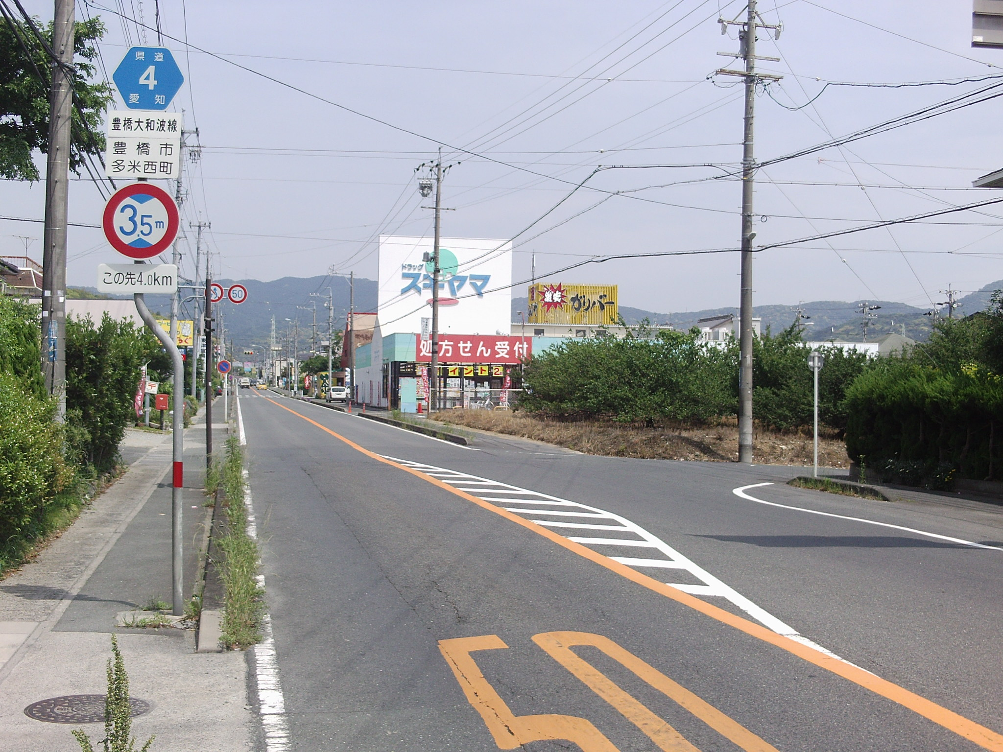 The Aichi Prefectural Road Route 4 in Tamenishimachi, Toyohashi City